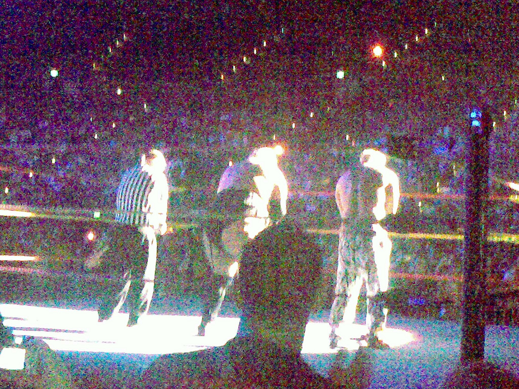 This is actually a cross culture joke, nbut no-one will get it